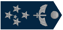 Brazilian Air Force Air Marshal insignia.